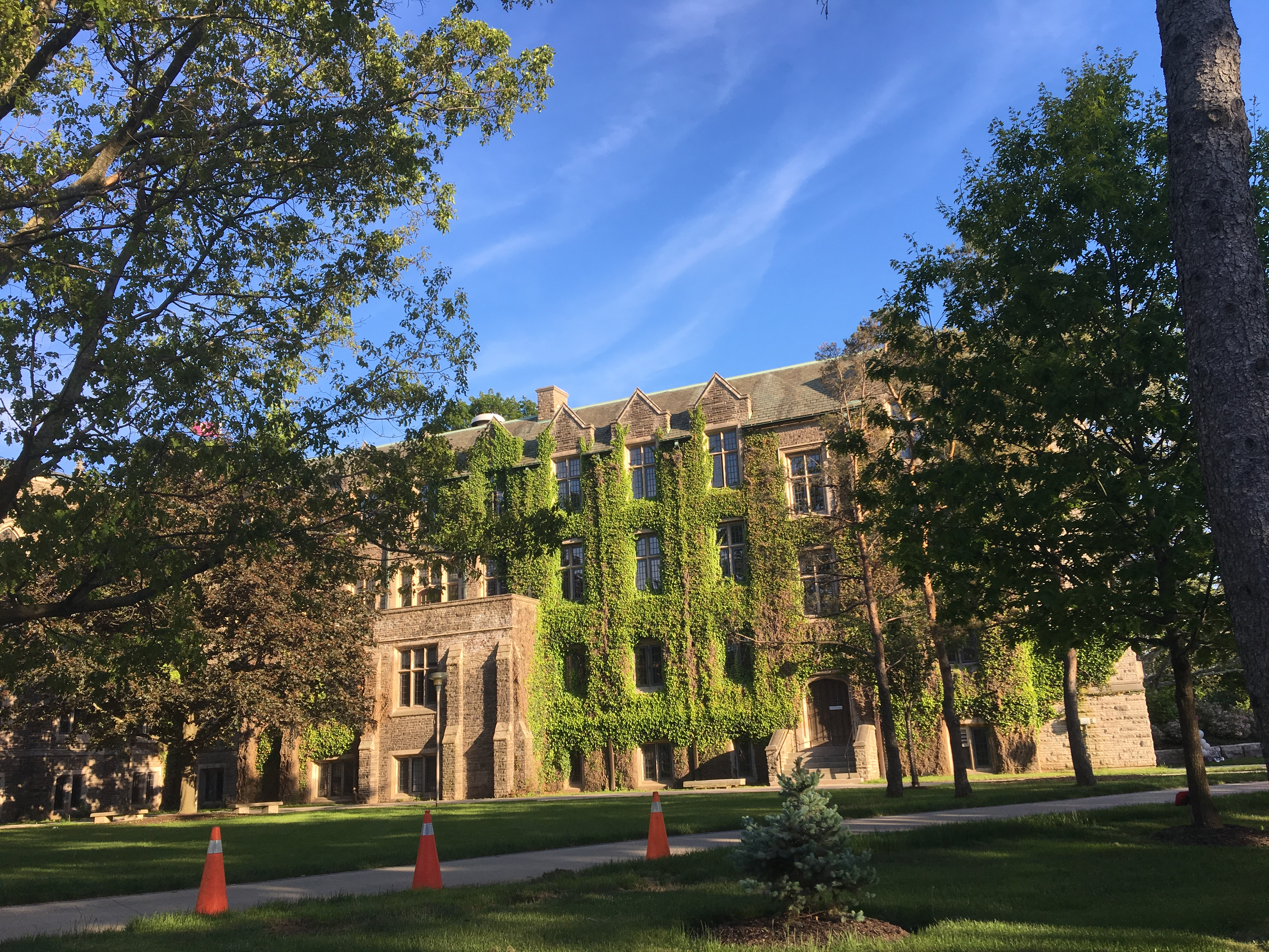 MacGrad17